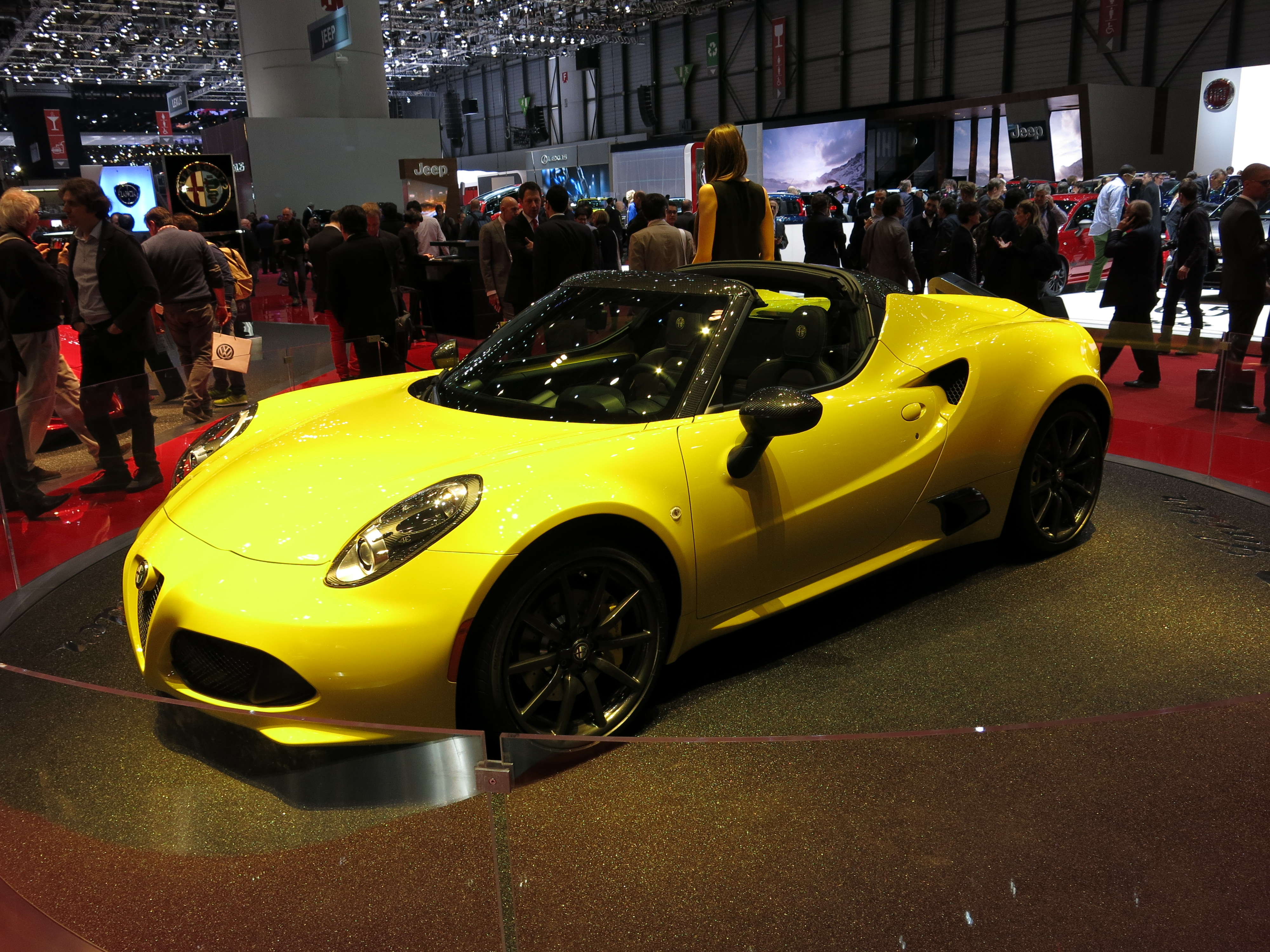 Geneva Motor Show 2015 (photo taken on the first press day)